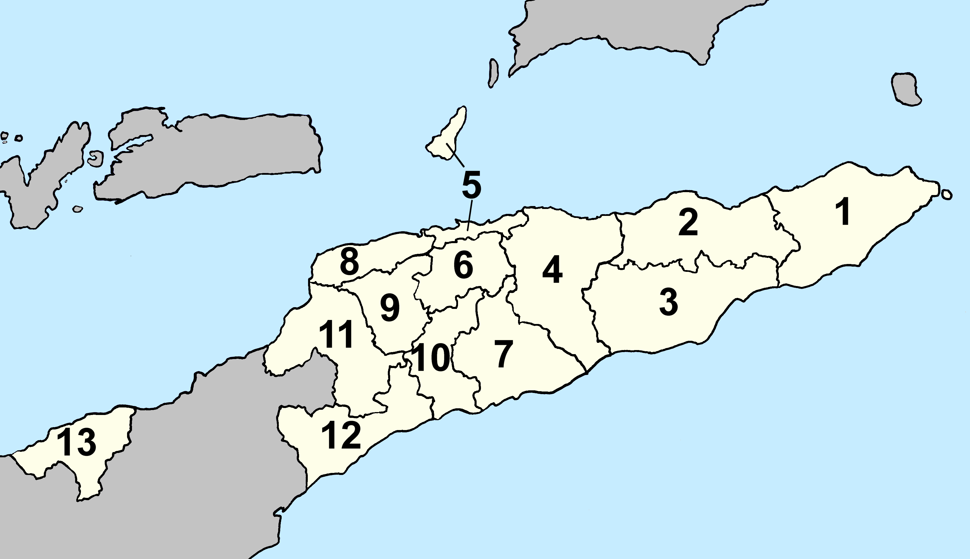 Locator map of municipalities of East Timor (numbered)